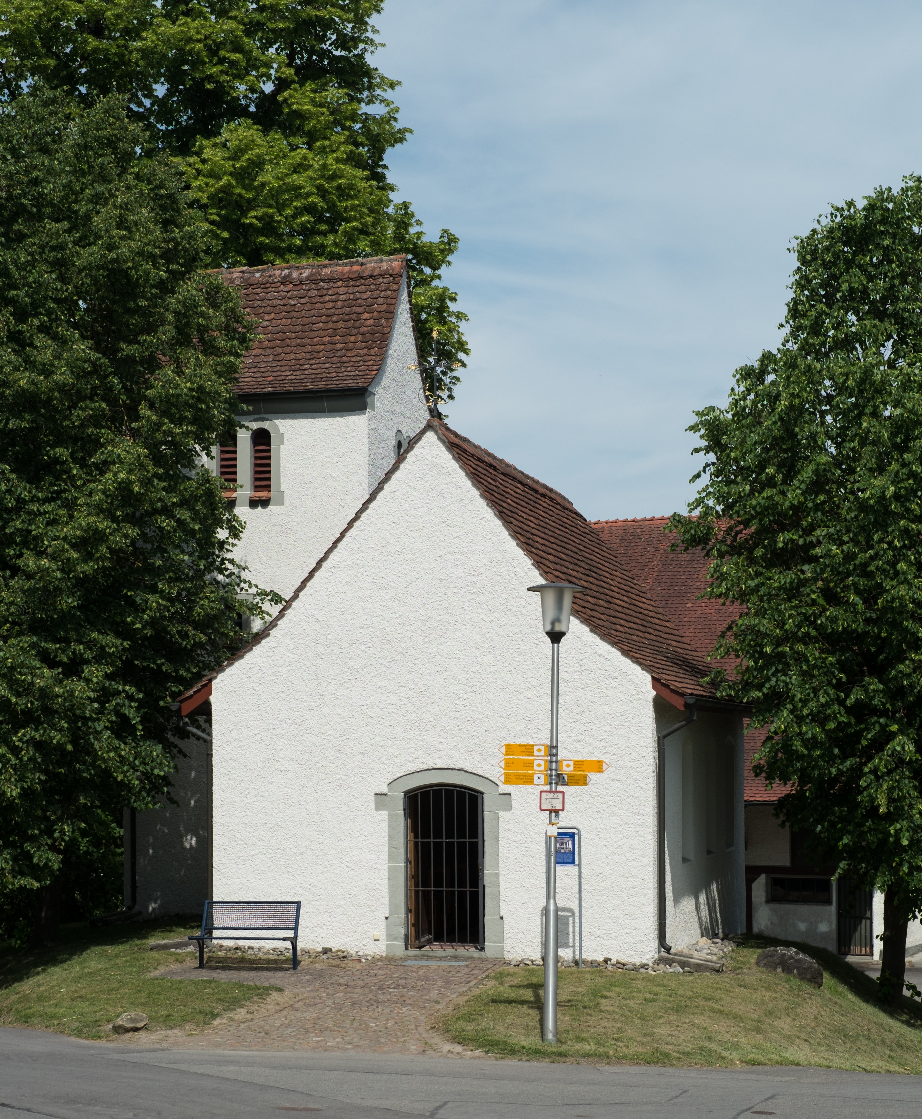 Chapel St Laurentius, Friedrichshafen-Lipbach, district Bodenseekreis, Baden Wurttemberg, Germany